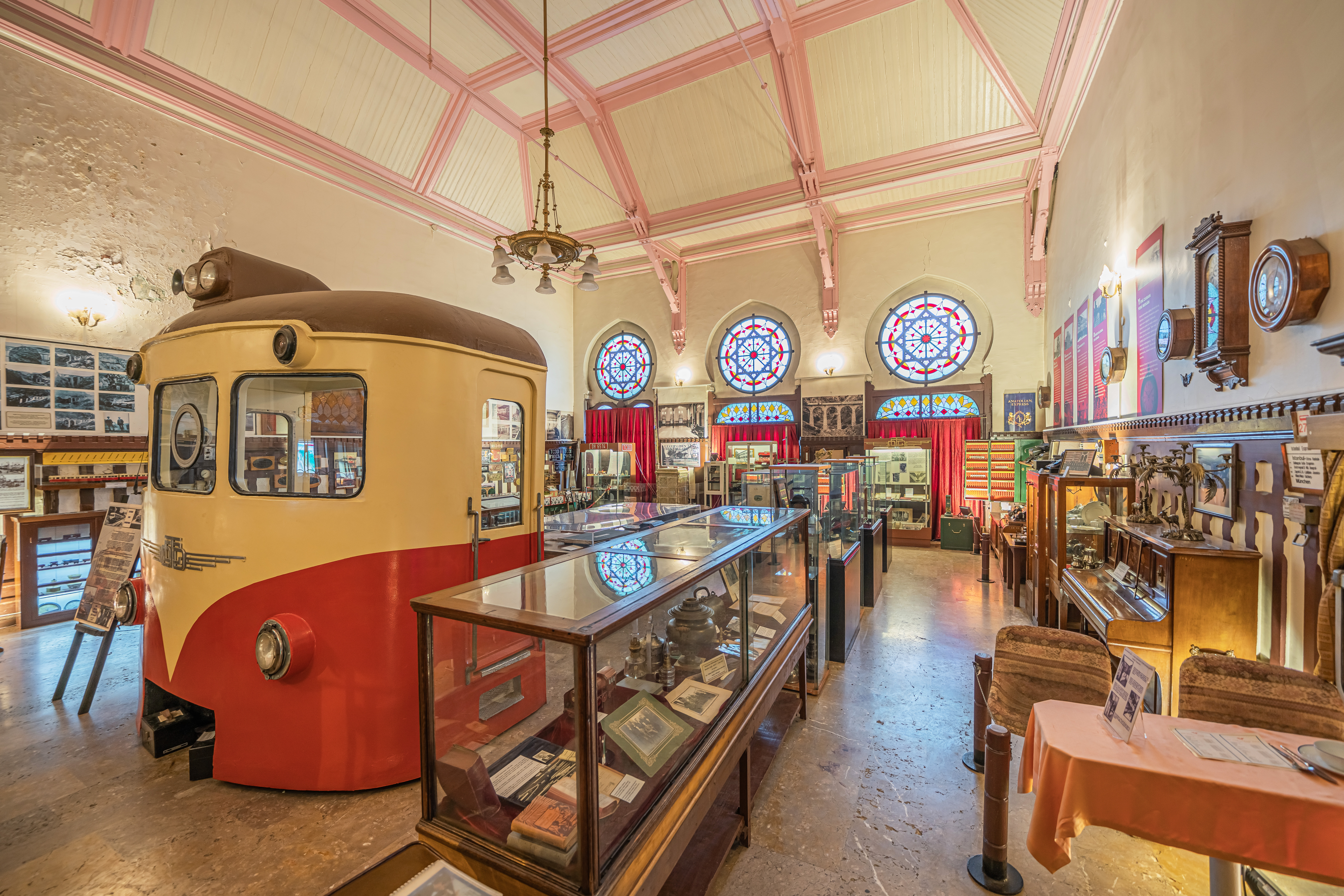 Interior of the Sirkeci railway terminal in Istanbul, Turkey